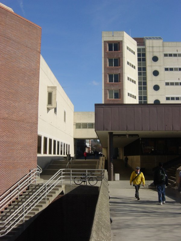 The George M. Low Center for Industrial Innovation can be seen in the background and to the left, and the black Darrin Communications Center in the foreground right.